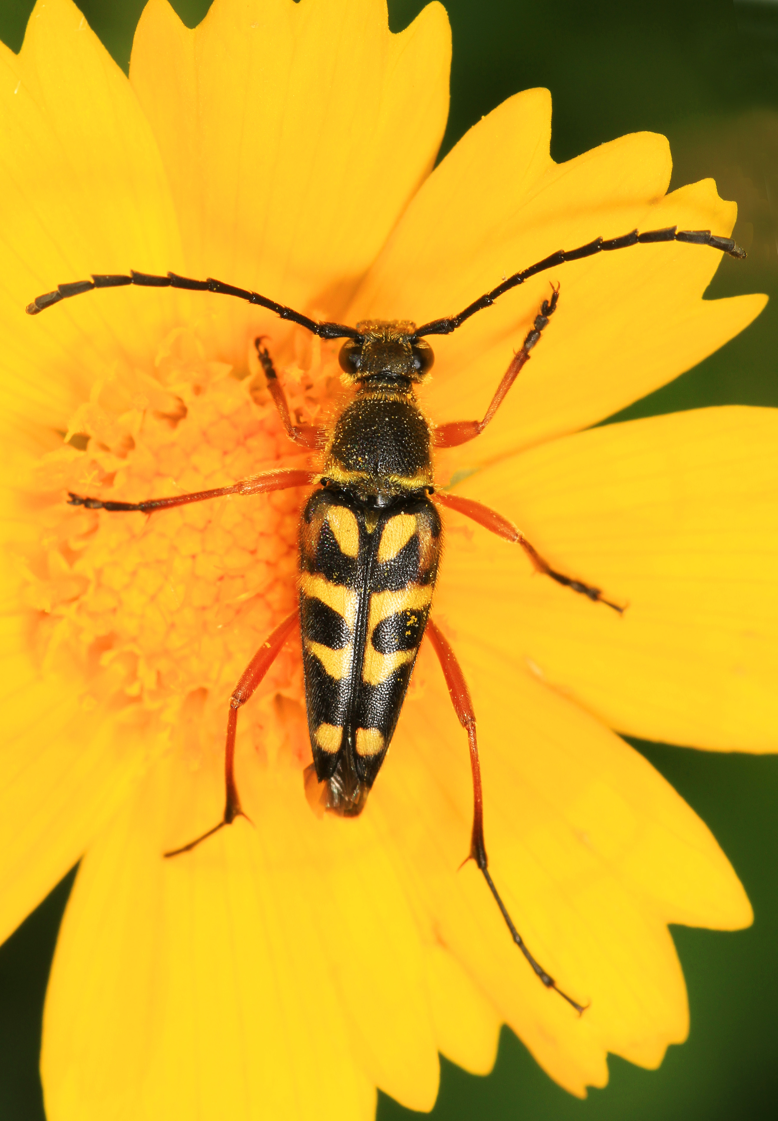 Zebra Longhorn - Typocerus zebra, Big Thicket National Preserve, Kountze, Texas.